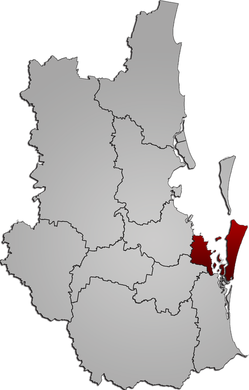 Redland City Council from 15 March, 2008